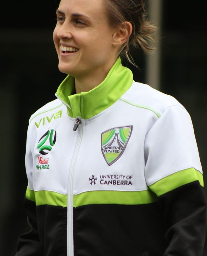 Olivia Price at Canberra United Football Club